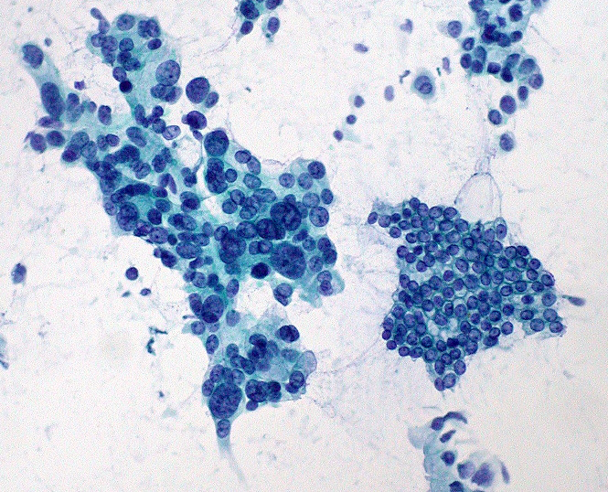 Pancreas FNA; adenocarcinoma vs. normal ductal epithelium (200x) On the left: Adenocarcinoma cells, showing disorganized arrangement, overlapping nuclei, and marked variation in nuclear size and shape. On the right: Normal duct lining with flat sheet of uniform cells arranged like a honeycomb